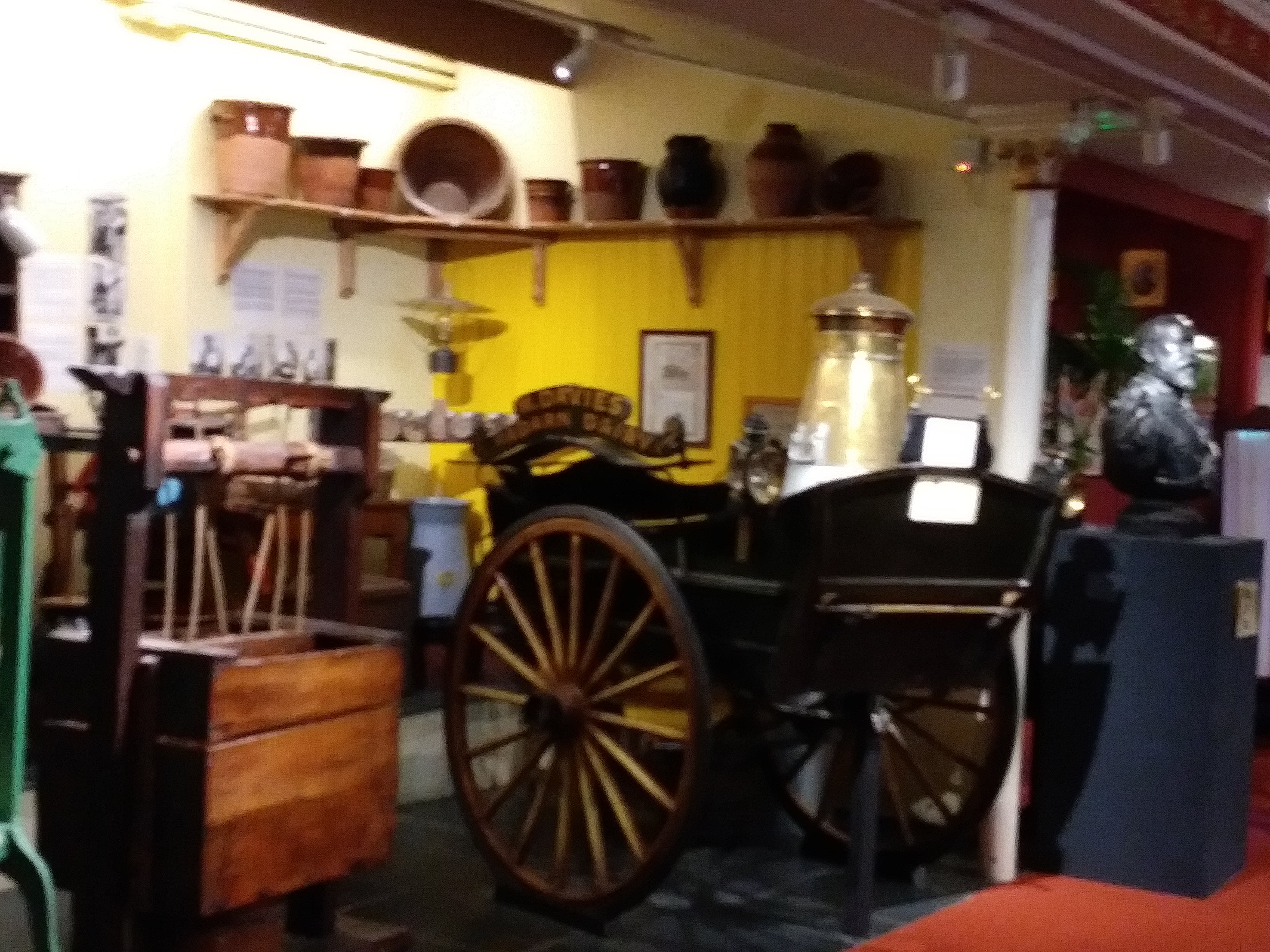 Ceredigion Museum Aberystwyth, exhibition